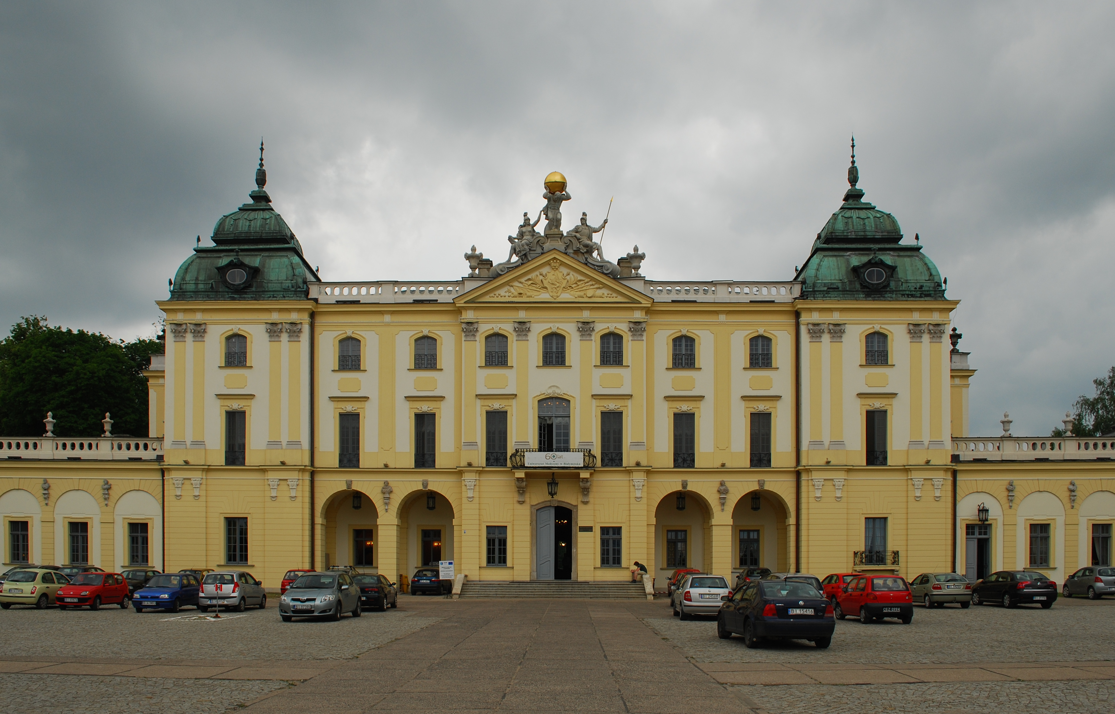 Branicki castle in Białystok, Poland